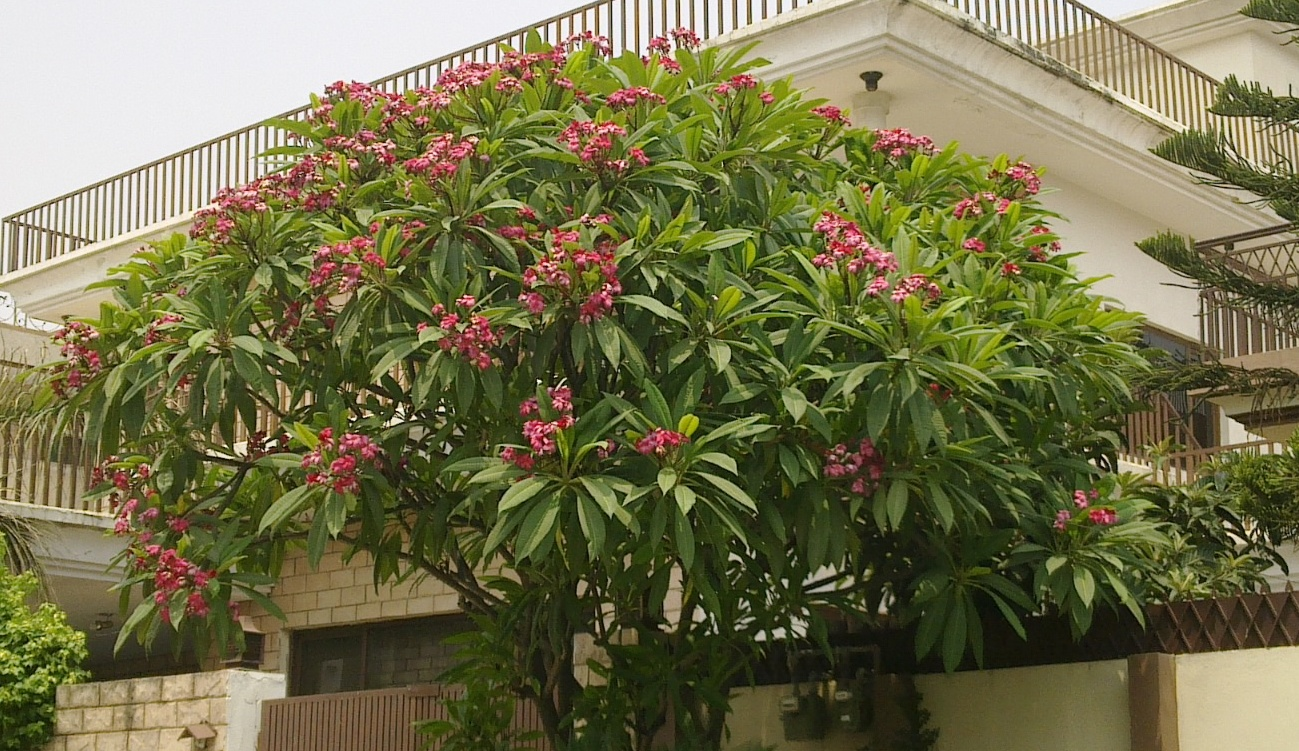 Champa tree with pink flowers in Islamabad, Pakistan.